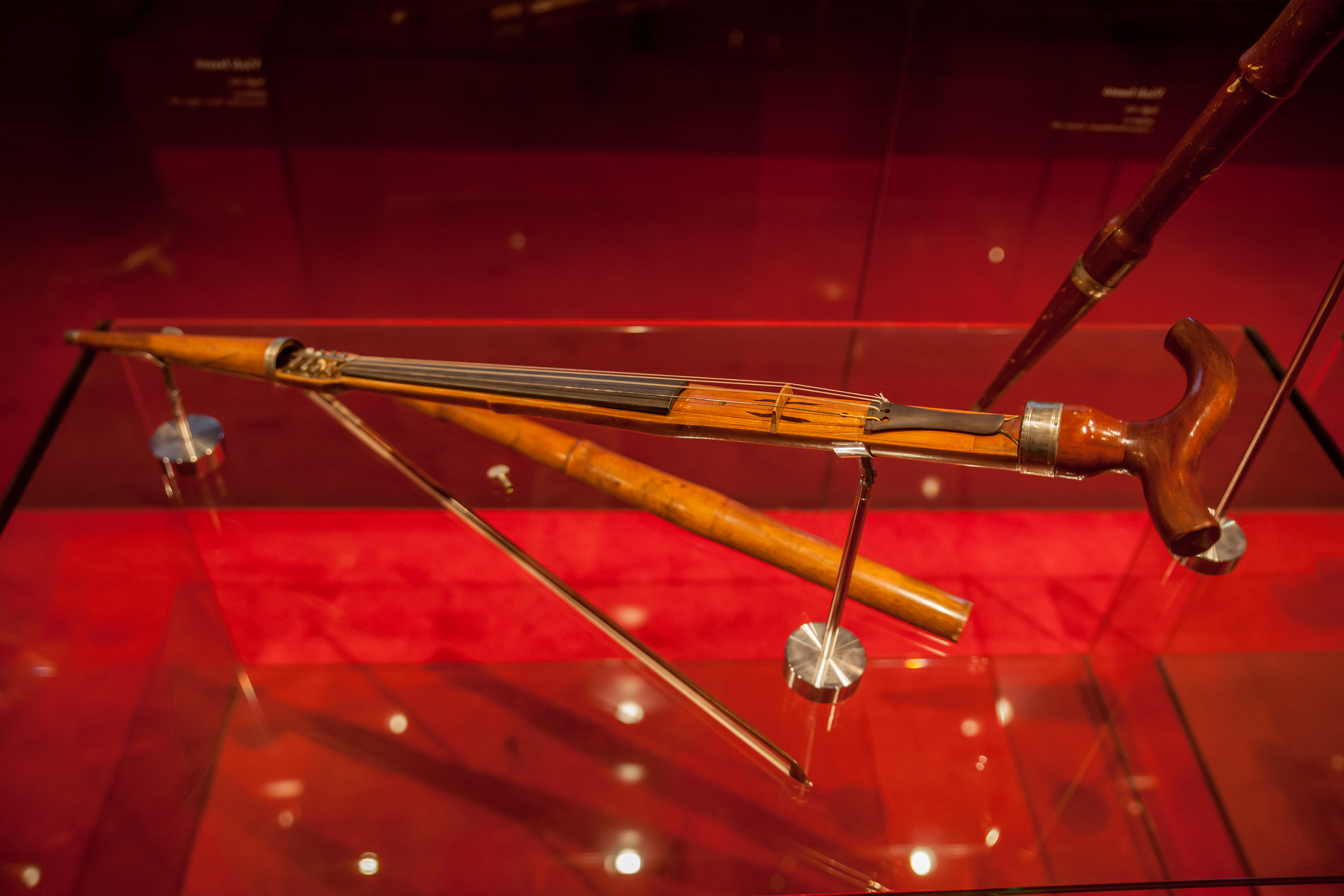 Walking stick violin, MDMB 416, Museu de la Música de Barcelona